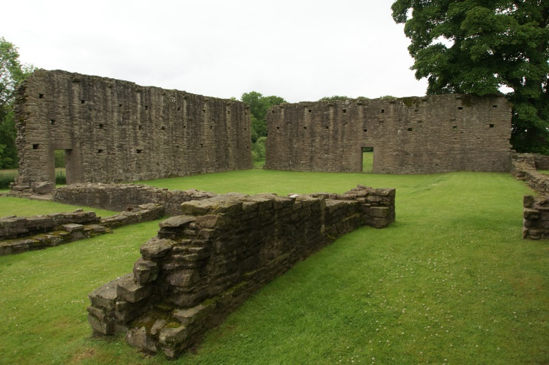 Restenneth Priory, Angus, Scotland. From the chapter house looking towards the cloister remains.